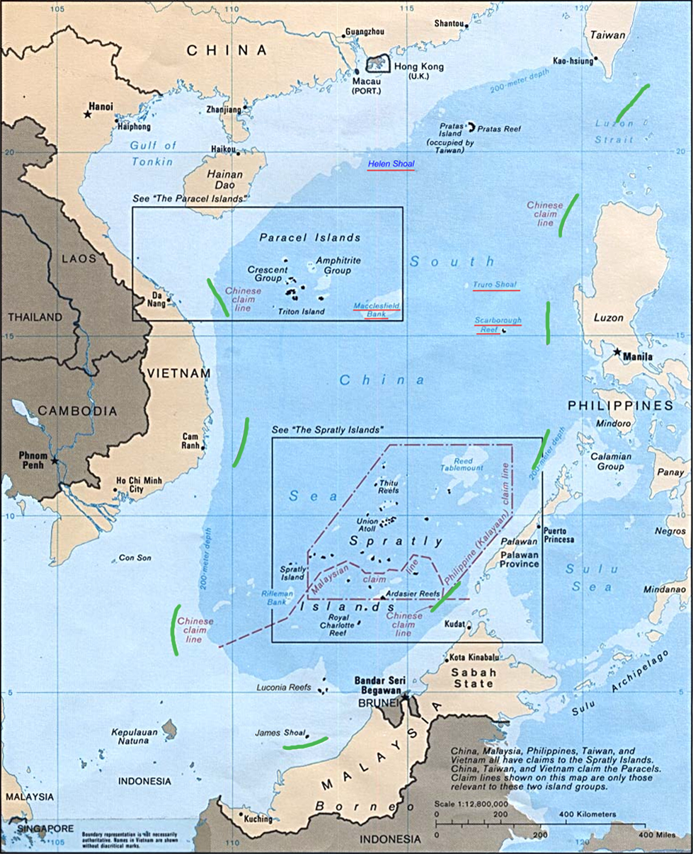 Map of the South China Sea, with 9-dotted line highlighted in green